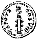 738 woodcuts illustrating the work A Dictionary of Roman Coins, Republican and Imperial (1889). To identify a coin please look at the filename to identify a page number, and check the Dictionary on numiswiki